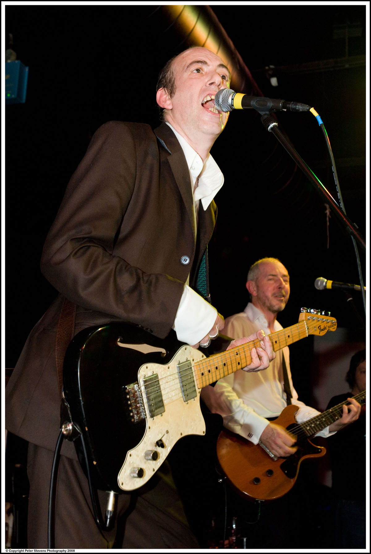 Mick Jones playing his Fender Thinline Telecaster at Carbon Casino VI, Inn On The Green, London W12